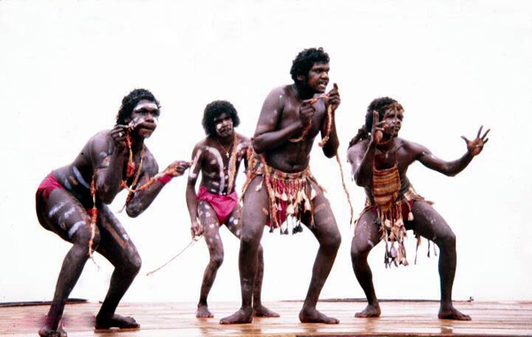 Nambassa 1981 Arnhemland and Torrest Strait dance company.jpg - Image (photograph) taken by Official Nambassa Photographer and uploaded by User:StoneHenge007, Nambassa dot com Terms of Use: 1/ All users of this image are required to attribute this work to "Nambassa Trust and Peter Terry" and the url: " " is to accompany all use. 2/ Attribution. You must attribute the work in the manner specified by the author or licensor. 3/ For any reuse or distribution, you must make clear to others the license terms of this work. Statement by Nambassa Trust and Peter Terry